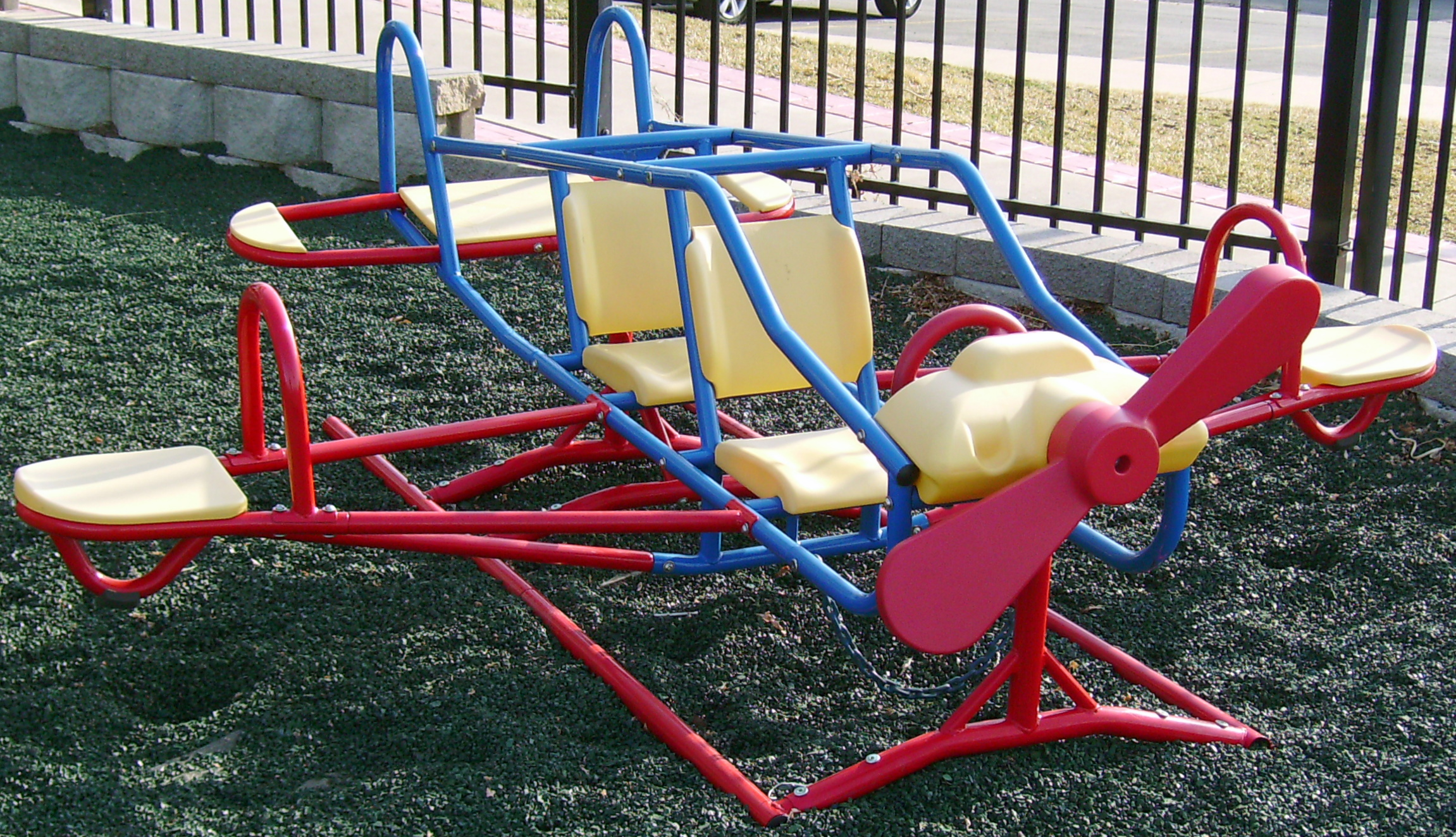 Teeter totter, Ace Flyer, airplane, Lifetime Products, playground equipment, back yard